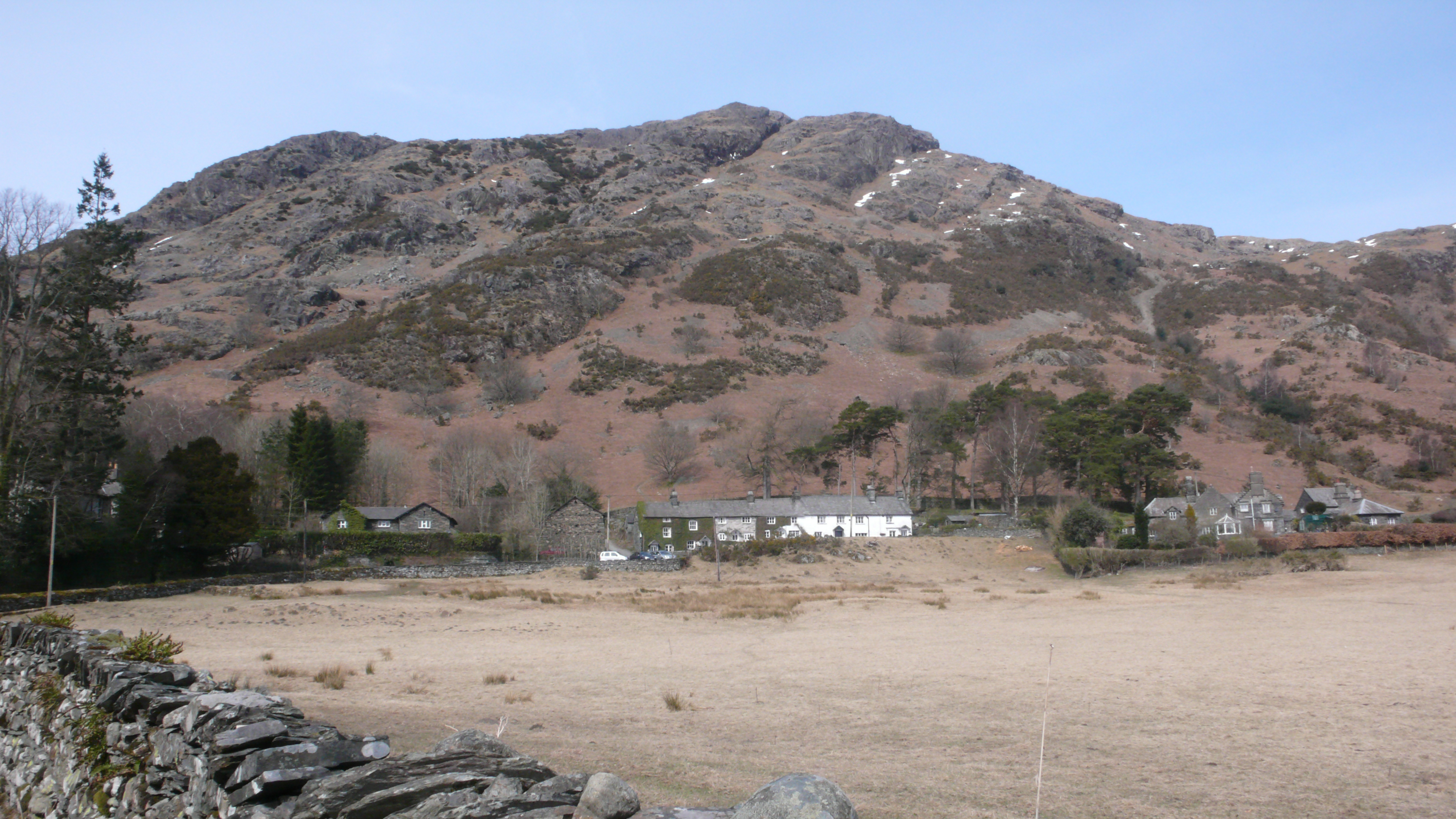 Furness Fell with Far End Cottages